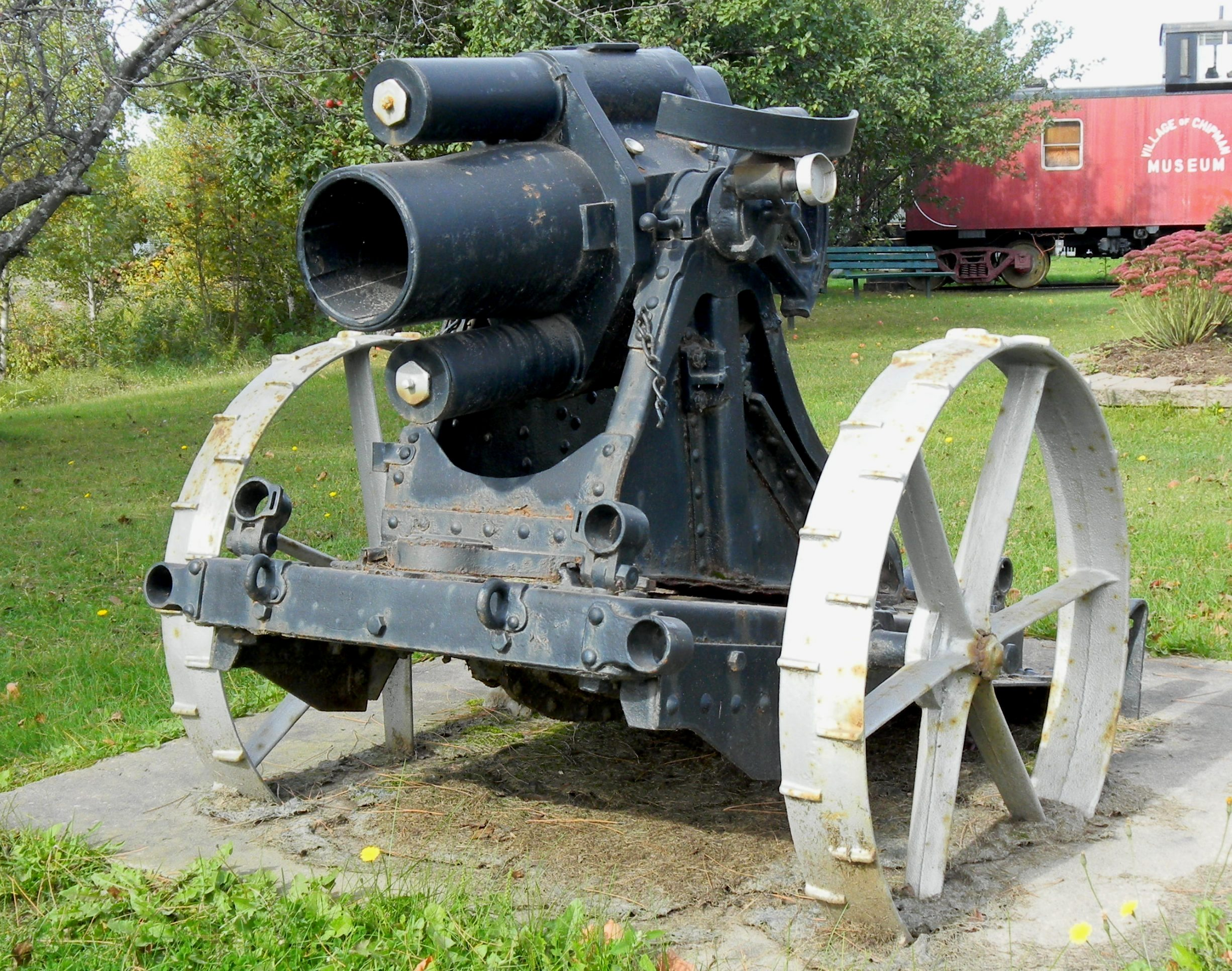 German Great War 17-cm mittlerer Minenwerfer (Nr. 7095), Chipman, New Brunswick, Canada